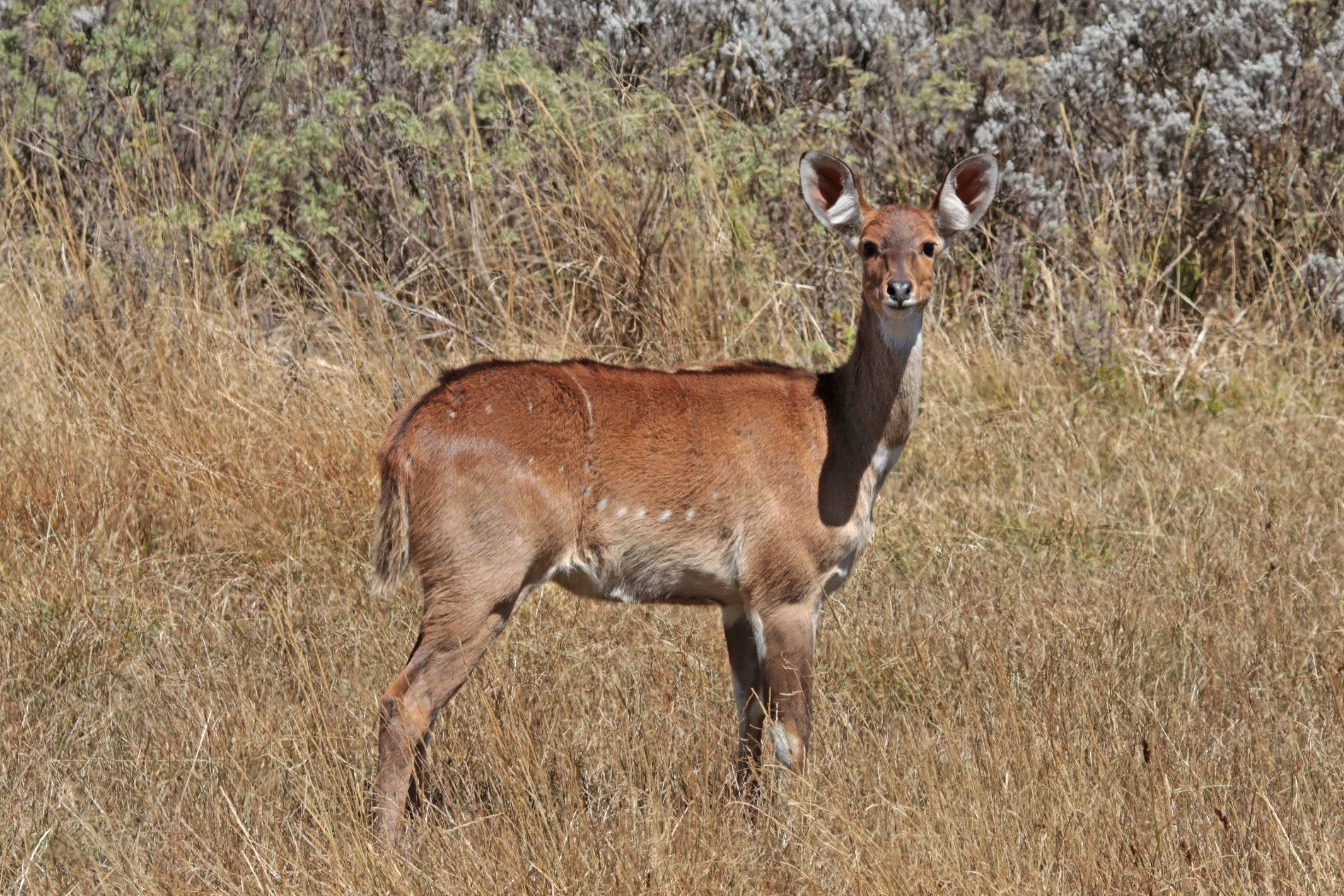 Mountain nyala (Tragelaphus buxtoni) juvenile, Bale Mountains National Park, Ethiopia